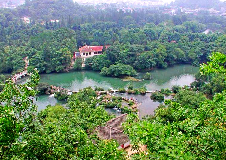 Olemissius